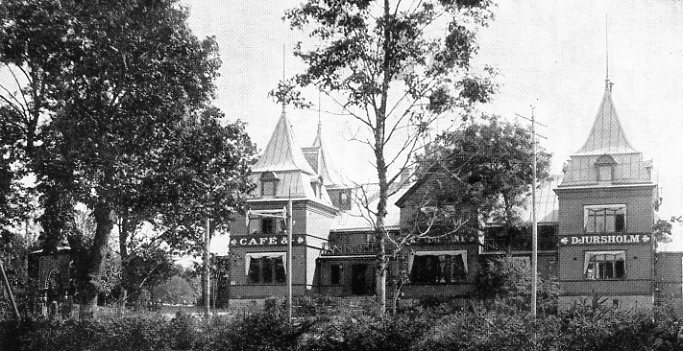 The restaurant in Djursholm, Sweden, photo från the 1890's